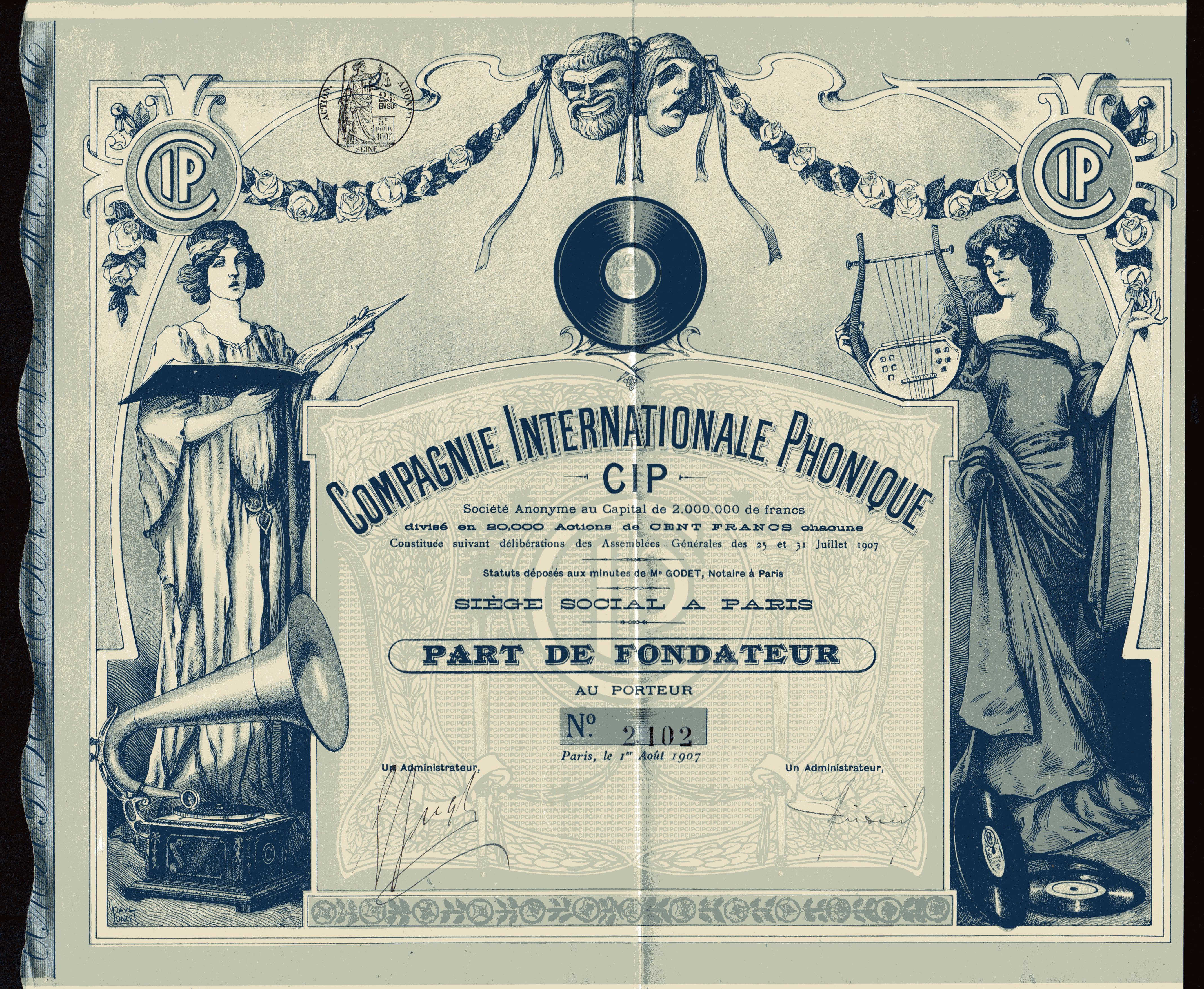 Founders share of the Compagnie Internationale Phonique, issued 1. August 1907